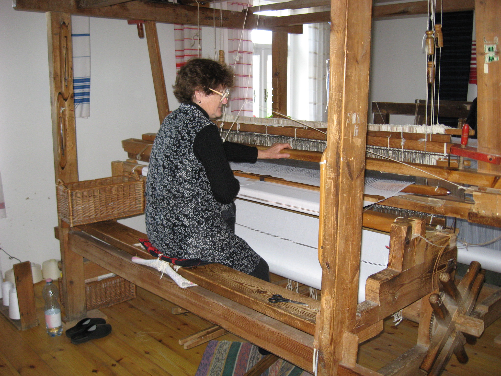 Work on a hand weaving loom. Mátraderecske Local Museum (Hungary)